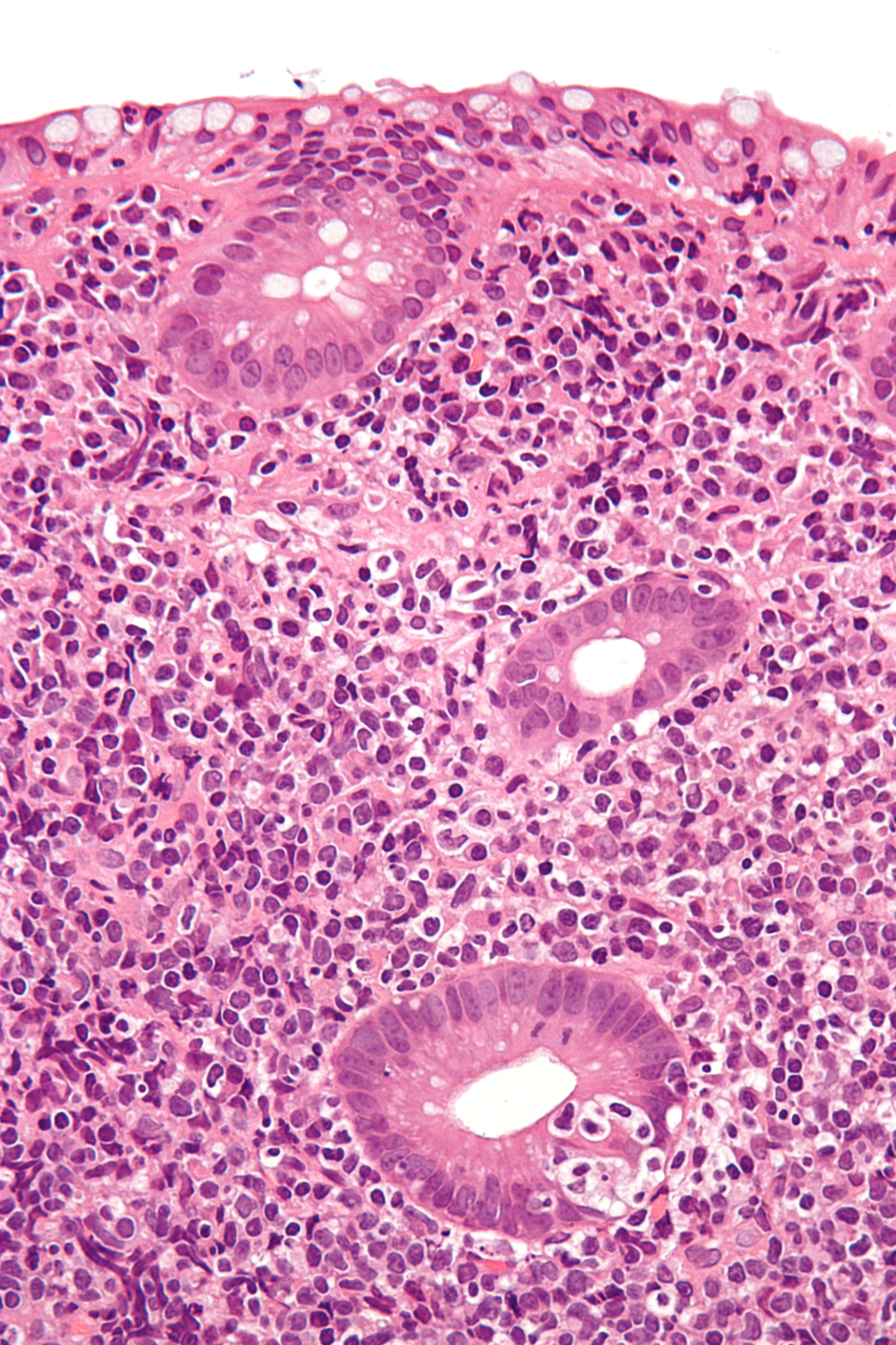 Very high magnification micrograph of a lymphoepithelial lesion of the gastrointestinal tract in the setting of a primary gastrointestinal tract lymphoma. H&E stain. Colonic biopsy (descending colon). Lymphoepithelial lesions are strongly associated with mucosa-associated lymphoid tissue lymphomas (MALT lymphomas); however, they may appear in other types of lymphomas. Related images Very low mag. Low mag. Intermed. mag. High mag.